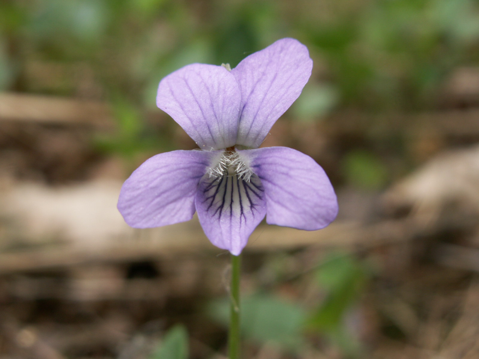 Viola canina flower